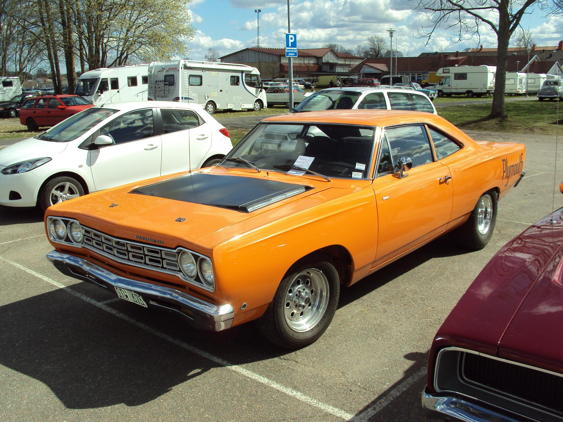 Plymouth Roadrunner